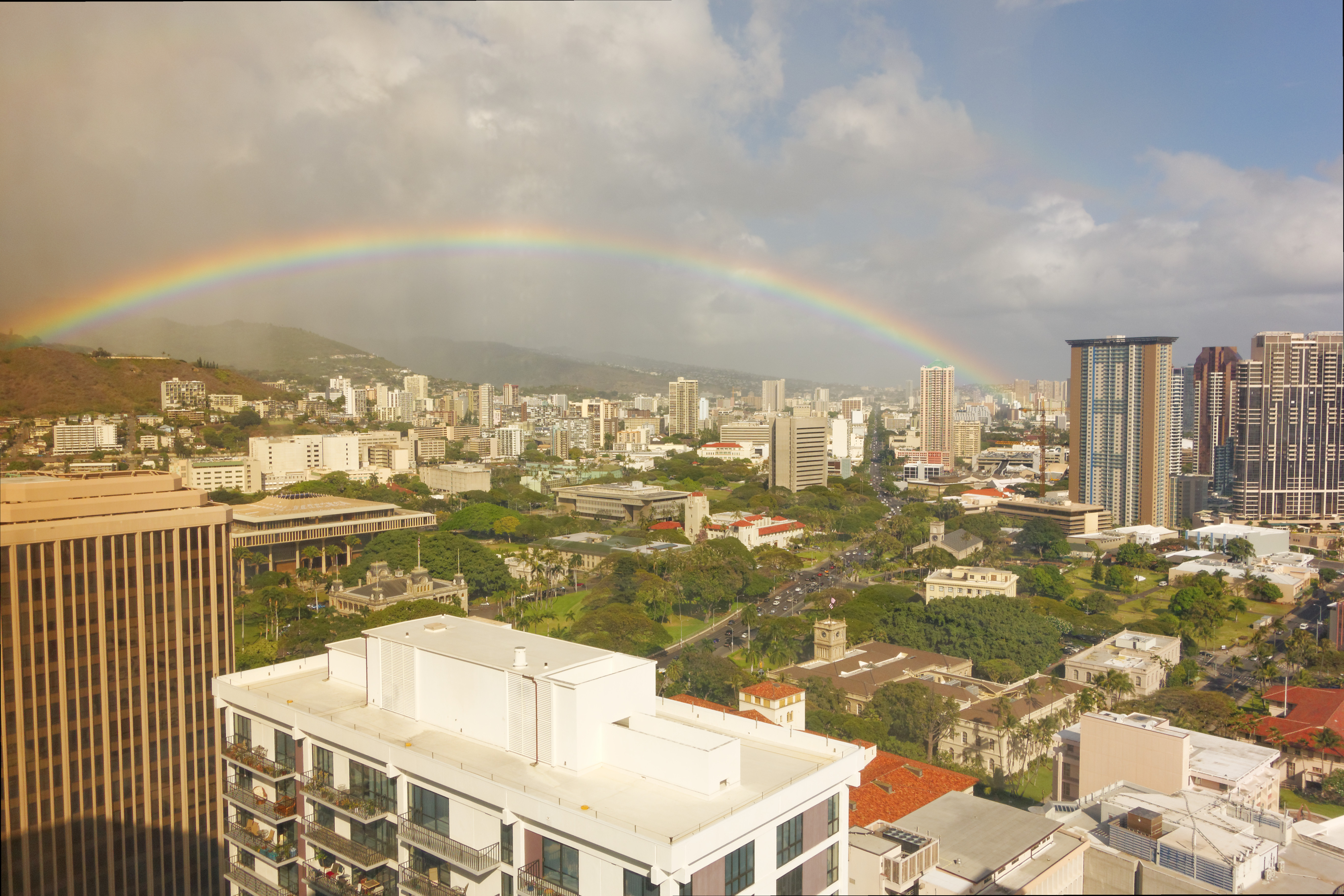 Small rainbow over the Capitol District